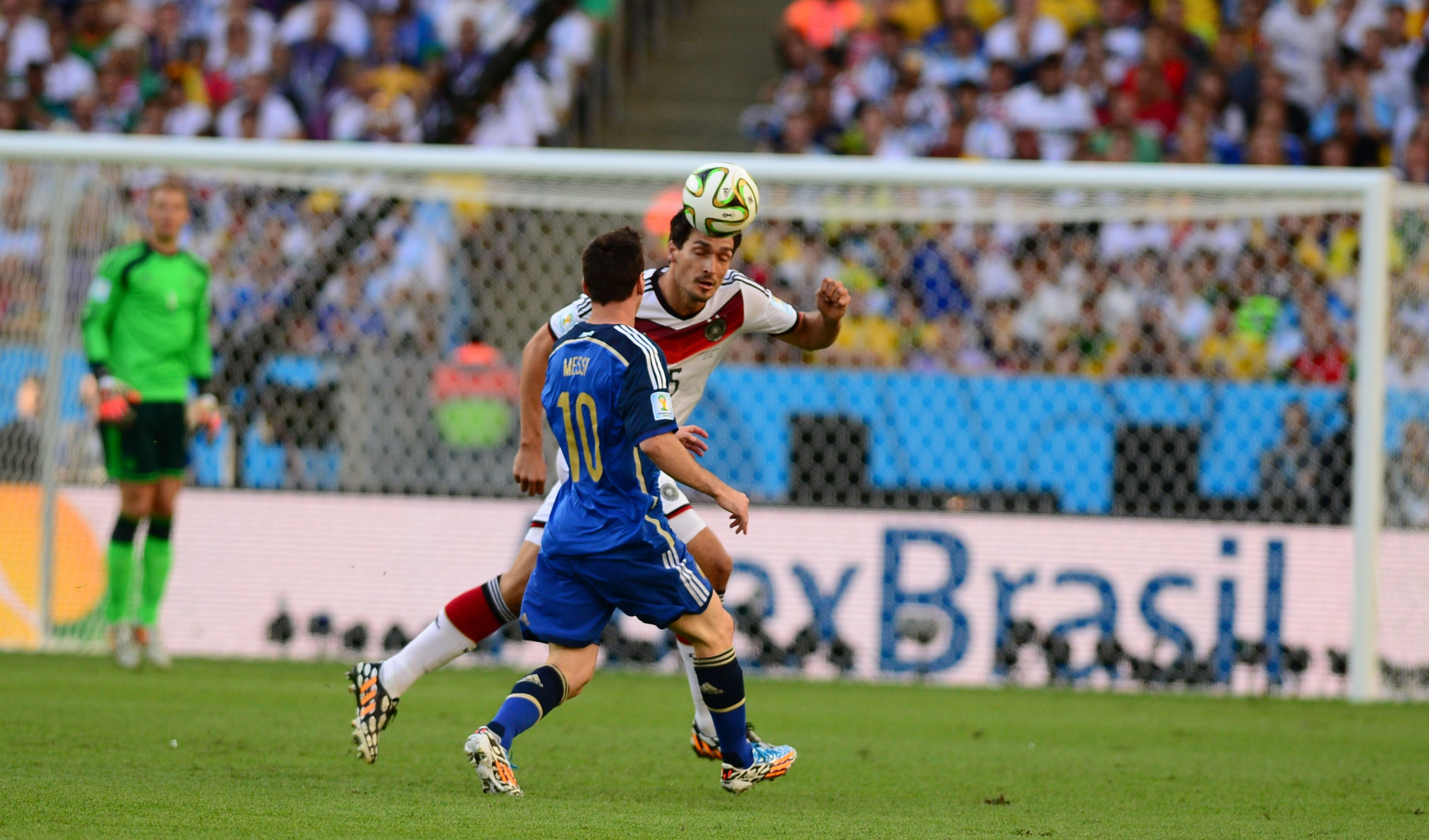 Germany and Argentina face off in the final of the World Cup